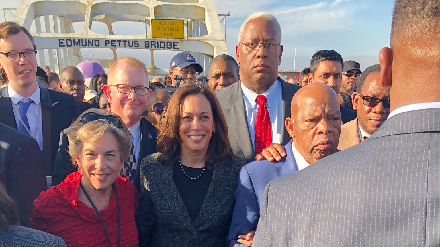 When I think about @repjohnlewis, and all the folks who marched from Selma to Montgomery, I am always inspired by their resilience, by their strength, and by their fight for America to achieve her ideals.